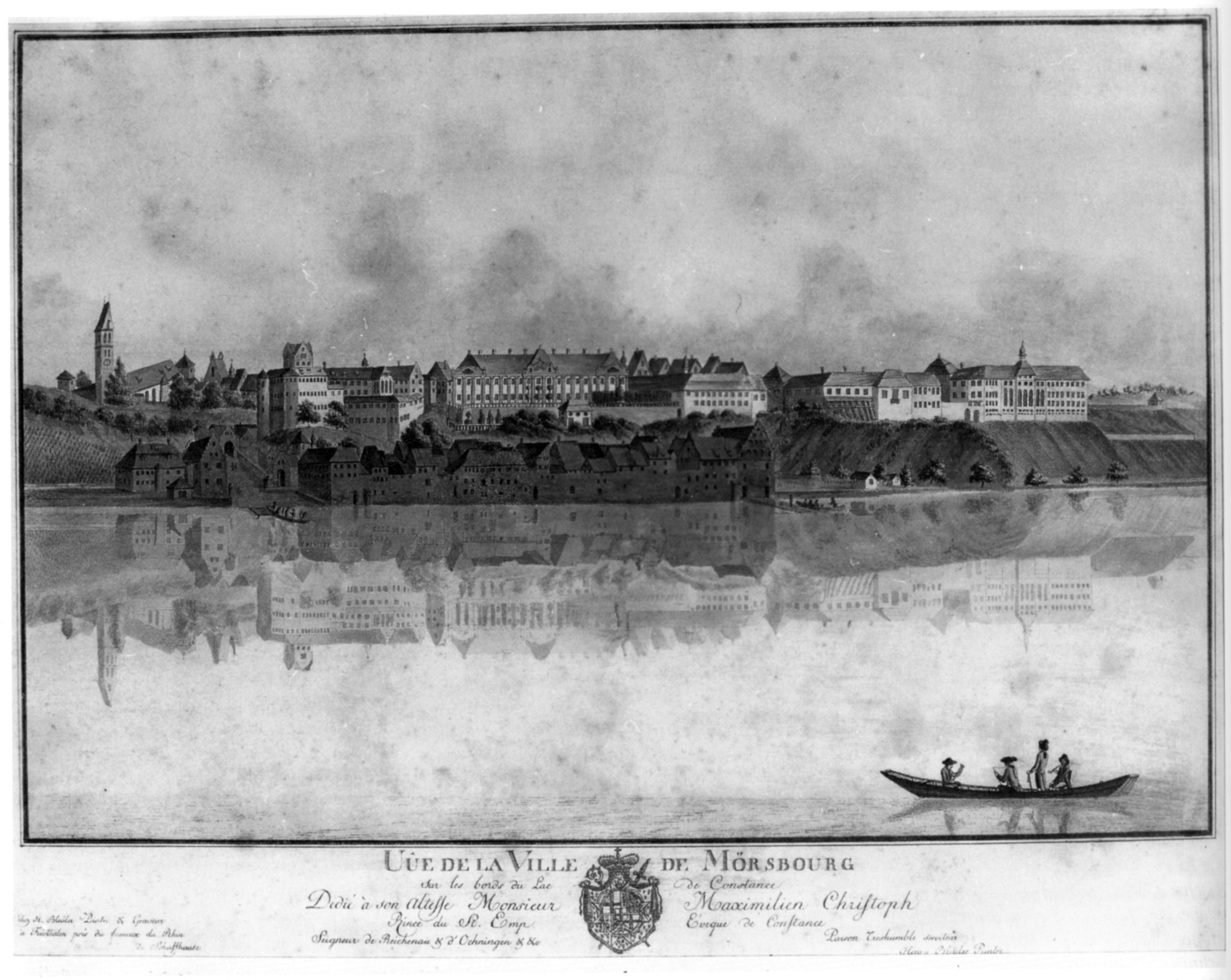 View of Meersburg in the late 18th century. Dedicated to the prince-bishop of Constance, Maximilian Christoph von Rodt (1775–1799). Meersburg had been the Residenz of the prince-bishops of Constance since the early 16th century. Engraving from the Rosgartenmuseum at Konstanz.